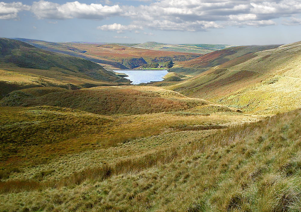 Typical Pennine scenery. Photo taken at the "Wessenden Valley" on the Pennine Way footpath south of Marsden in West Yorkshire. The area is part of the Marsden Moor Estate. Photo taken by G-Man Sept 2004. Edited by Fir0002